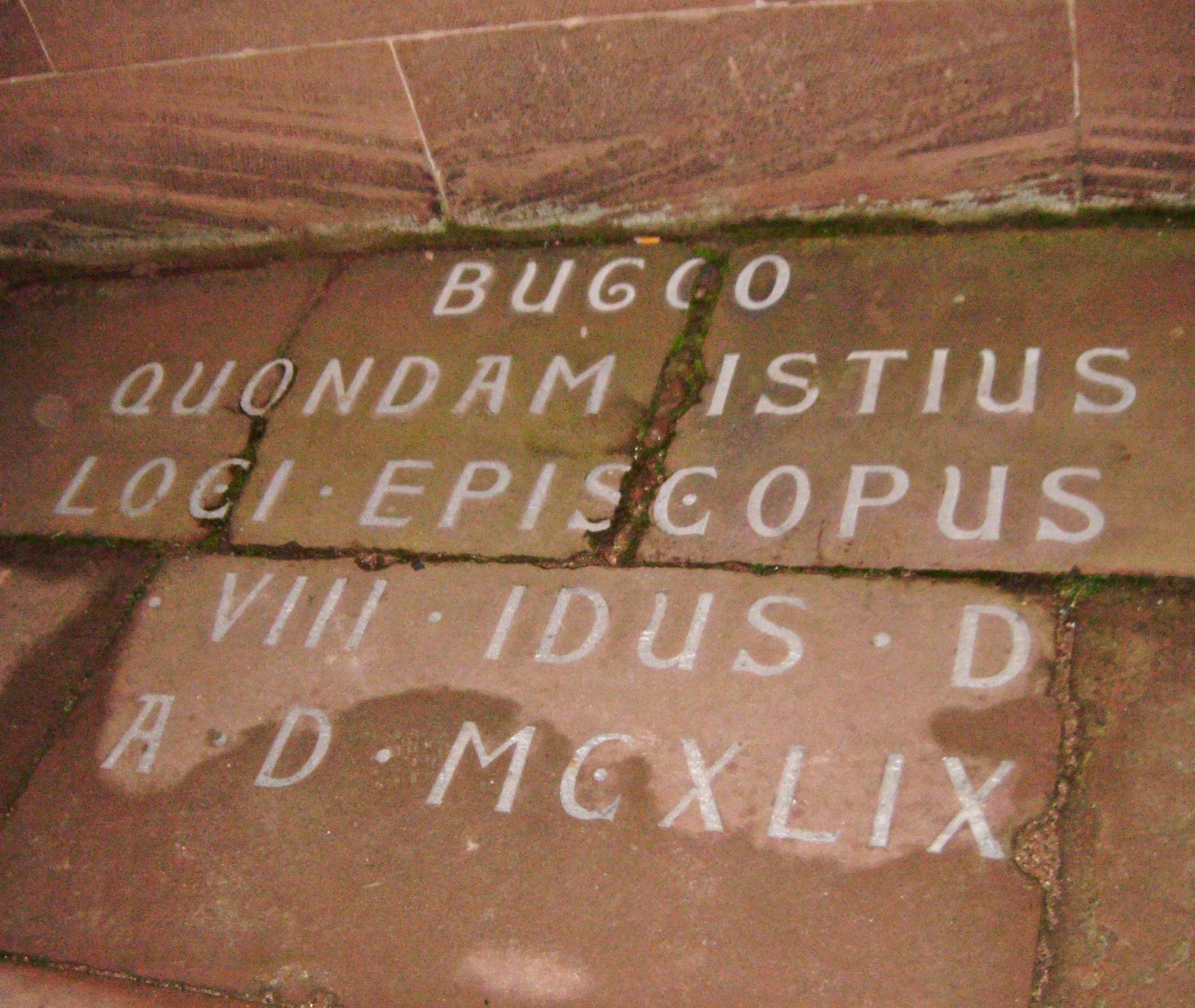 Epitaph inscription of bishop Burchard II of Worms (1115-1149), outer area of the cathedral of Worms: BUGGO · QUONDAM · ISTIUS · LOCI · EPISCOPUS · VIII · IDUS · D(ECEMBRIS) · A(NNO) · D(OMINI) · M C X L I X - BUGGO (Burchard) ONCE OF THIS PLACE BISHOP 8th(day before the) ides of December 1149 (= 6th of December 1149)